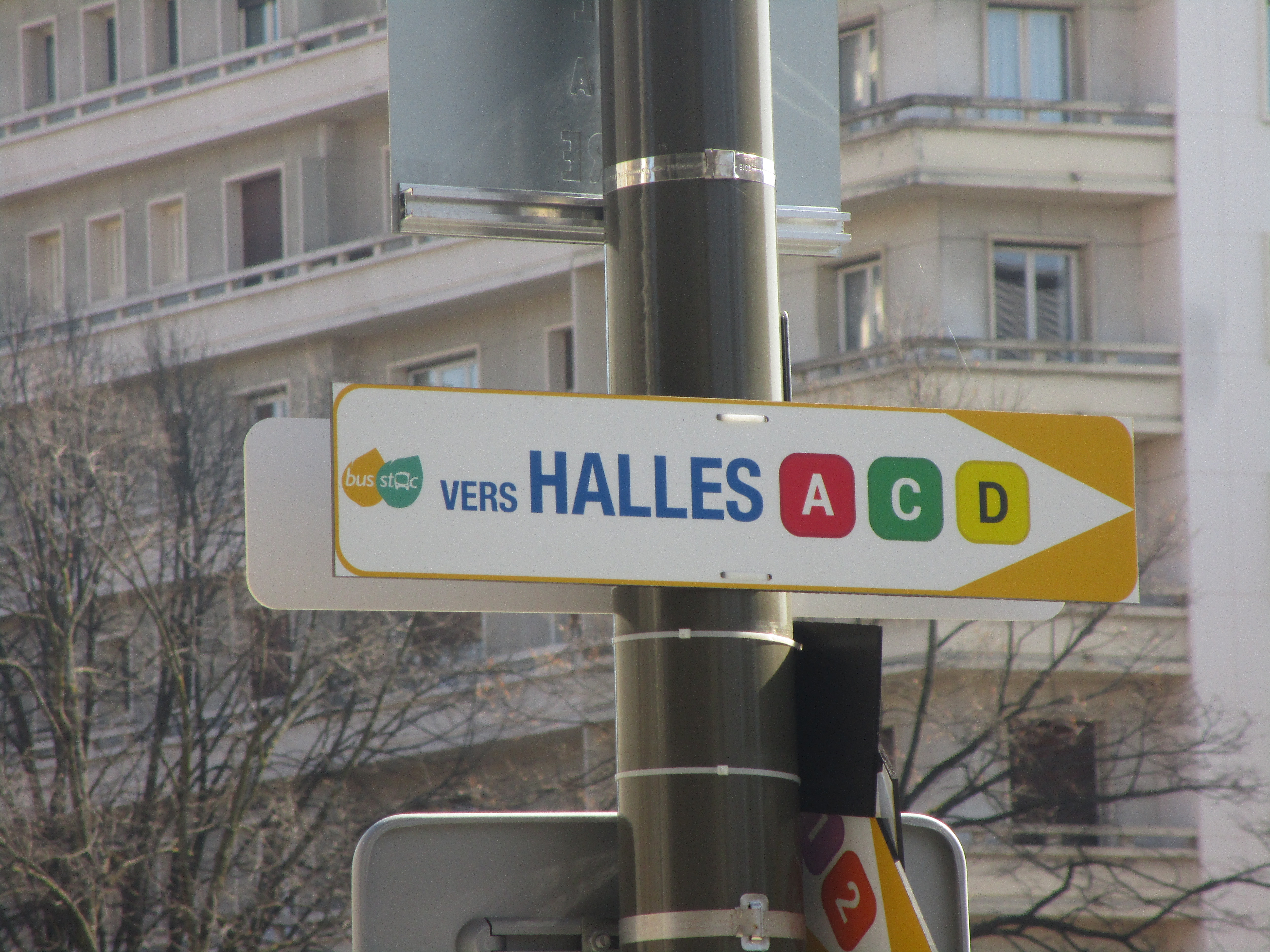 One of the 24 signs of the marking out for pedestrians organized for the new bus network of the Stac (august 2016) in Chambéry (Savoie, France) on March 16, 2017.